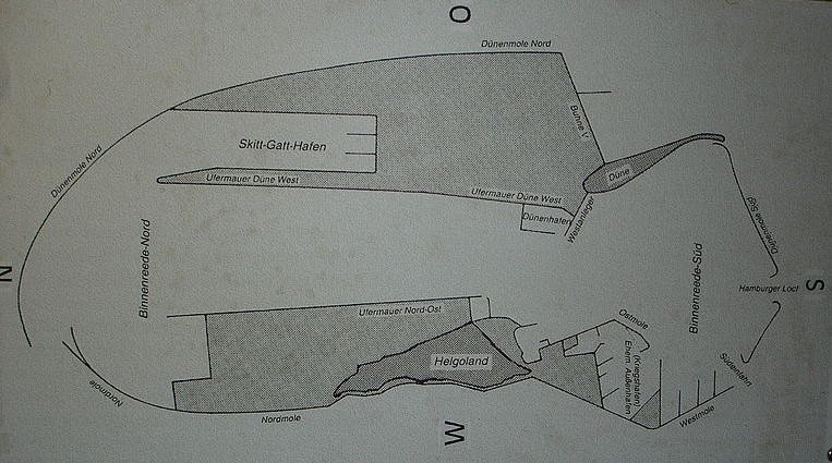 Heligoland, Project Lobster shears a big naval harbour of the Nazi planner